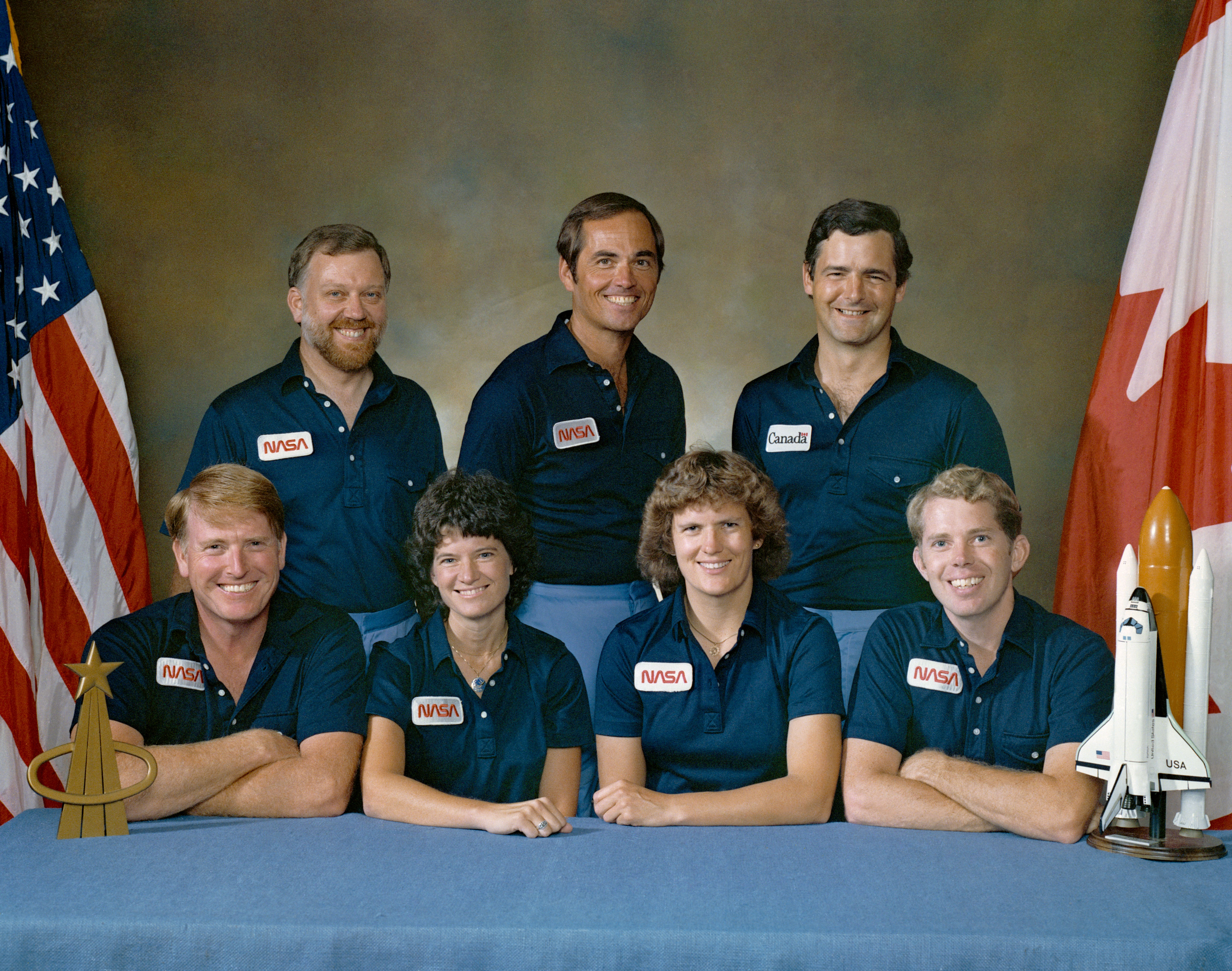 The crew assigned to the STS-41G mission included (seated left to right) Jon A. McBride, pilot; mission specialists Sally K. Ride, Kathryn D. Sullivan, and David C. Leestma. Standing in the rear, left to right, are payload specialists Paul D. Scully-Power and Marc Garneau with crew commander Robert L. Crippen in the middle. Launched aboard the Space Shuttle Challenger on October 5, 1984 at 7:03:00 am (EDT), the STS-41G mission marked the first flight to include two women. Sullivan was the first woman to walk in space. The crew deployed the Earth Radiation Budget Satellite (ERBS), connected the components of the Orbital Refueling System (ORS) which demonstrated the possibility of refueling satellites in orbit, and carried 3 experiments of the Office of Space Terrestrial Applications-3 (OSTA-3).